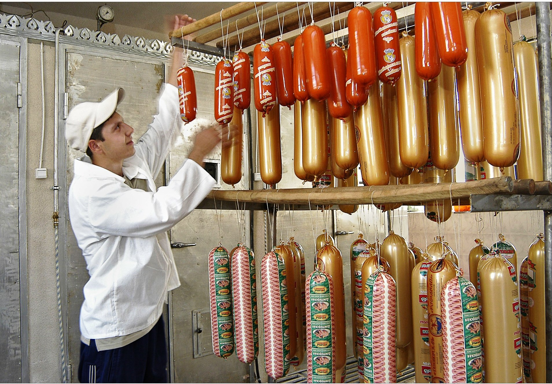 Sausage factory in Armenia.